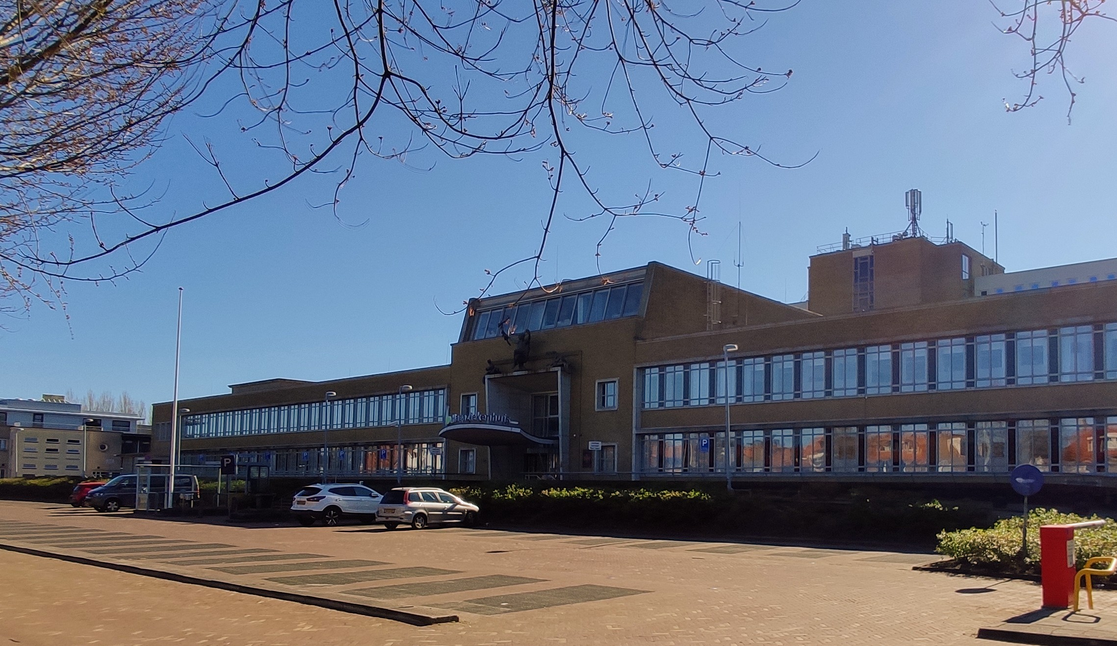 Formally known as the Red Cross hospital